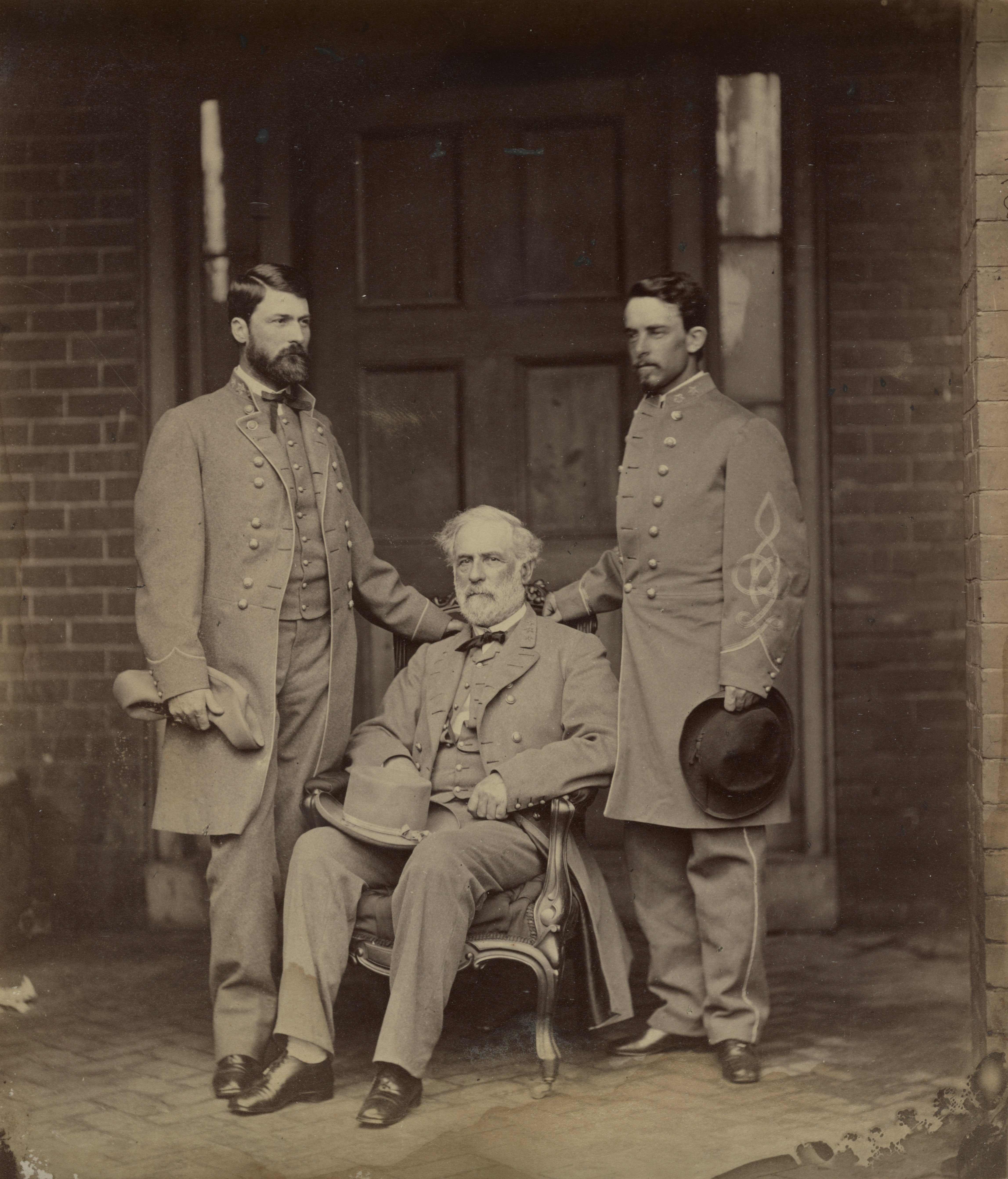 Photograph shows portrait of Lee seated with George Washington Custis Lee and Walter H. Taylor standing, 1865 (NPS).